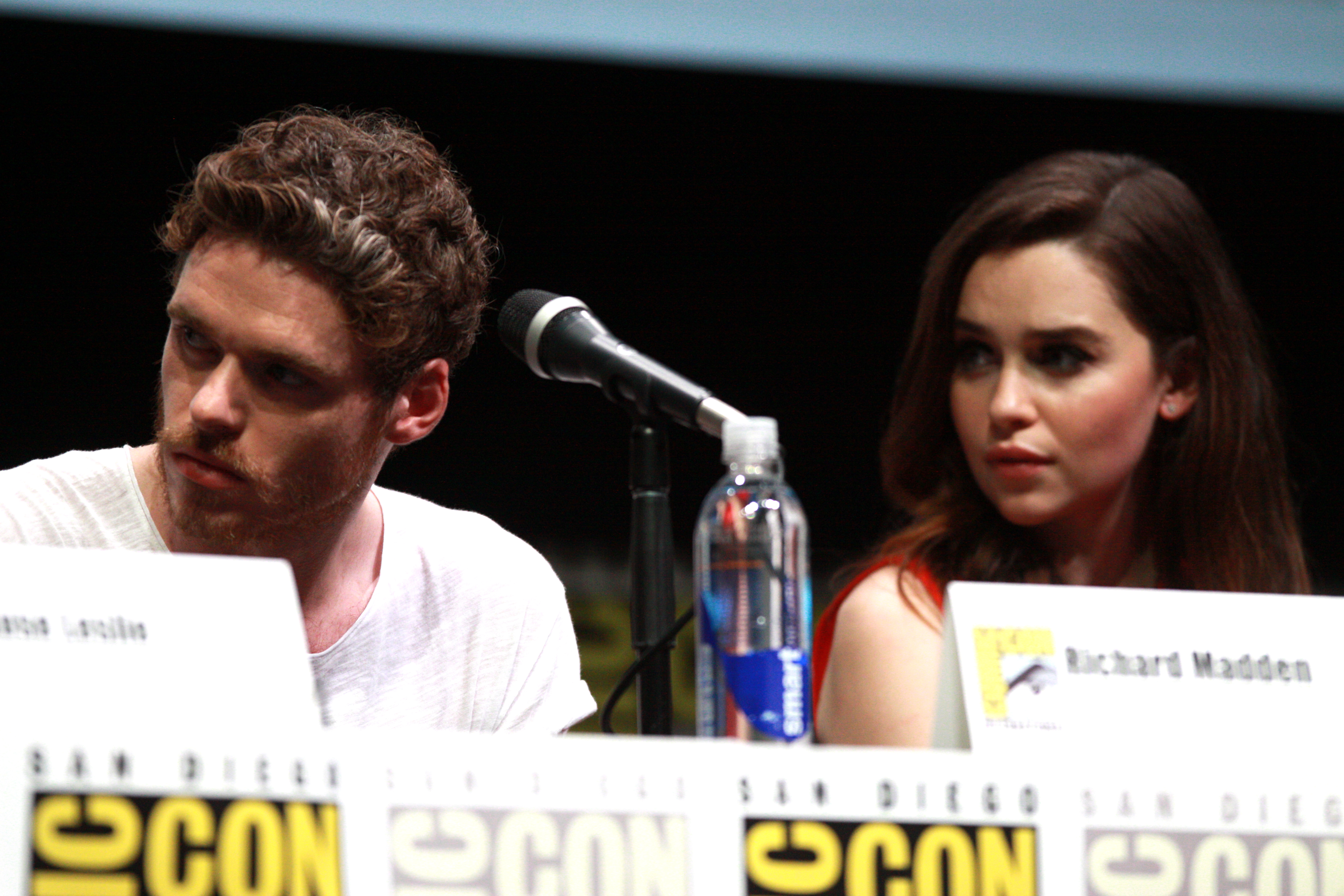 Richard Madden and Emilia Clarke speaking at the 2013 San Diego Comic Con International, for "Game of Thrones", at the San Diego Convention Center in San Diego, California.